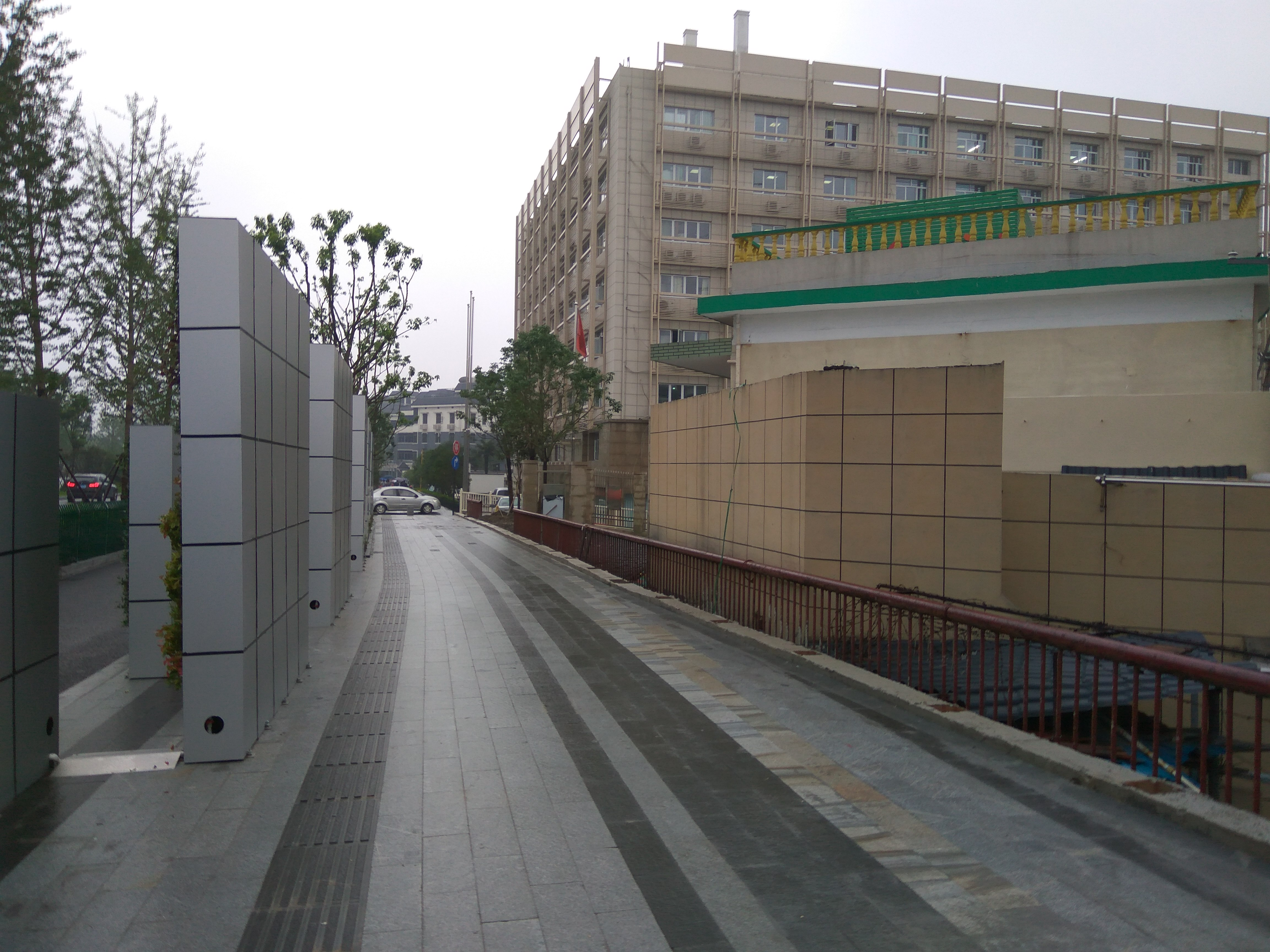 201606 Inappropriate buildings behind the wall